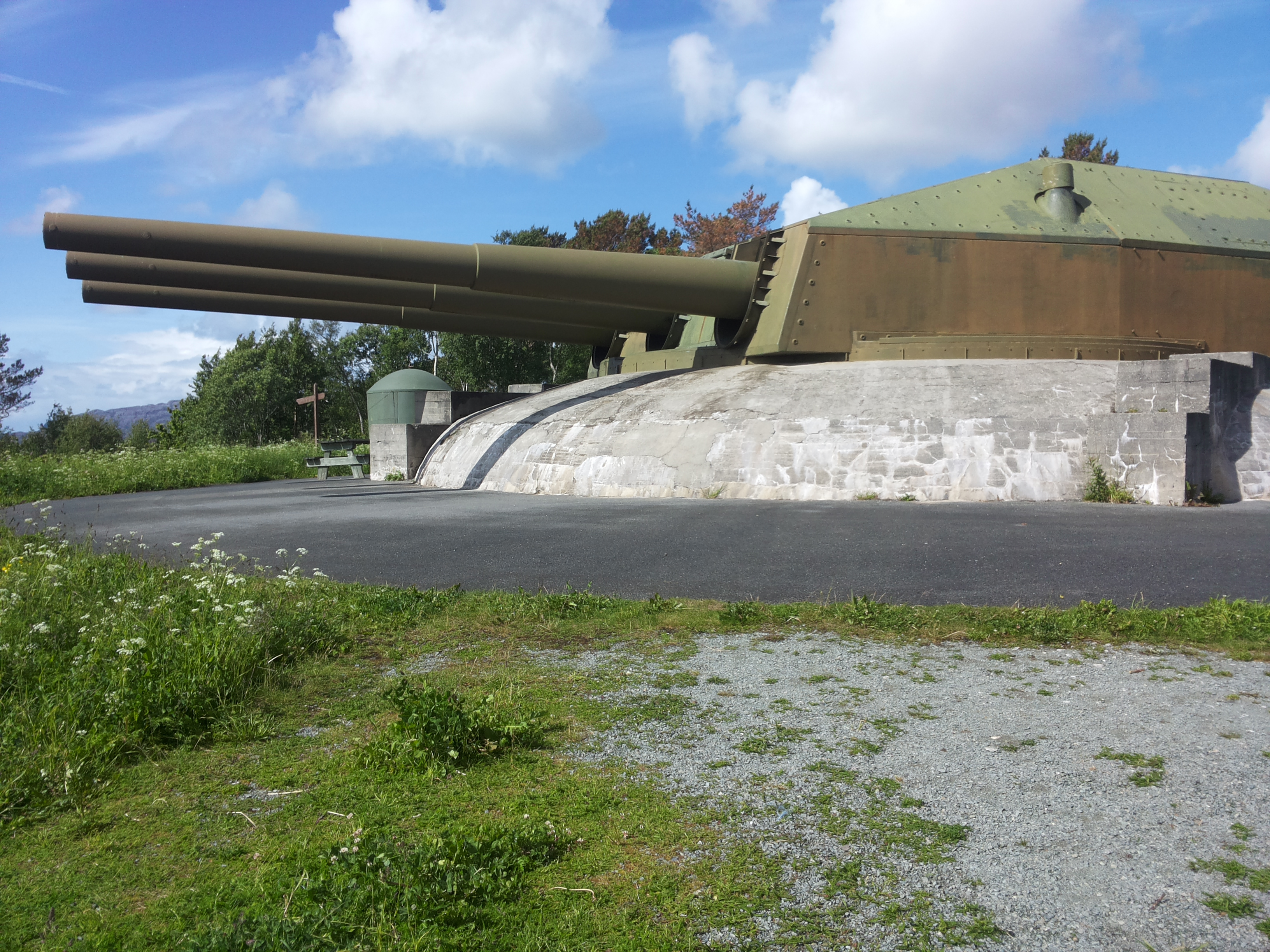 Guns of Austrått Fort in Ørland, Norway